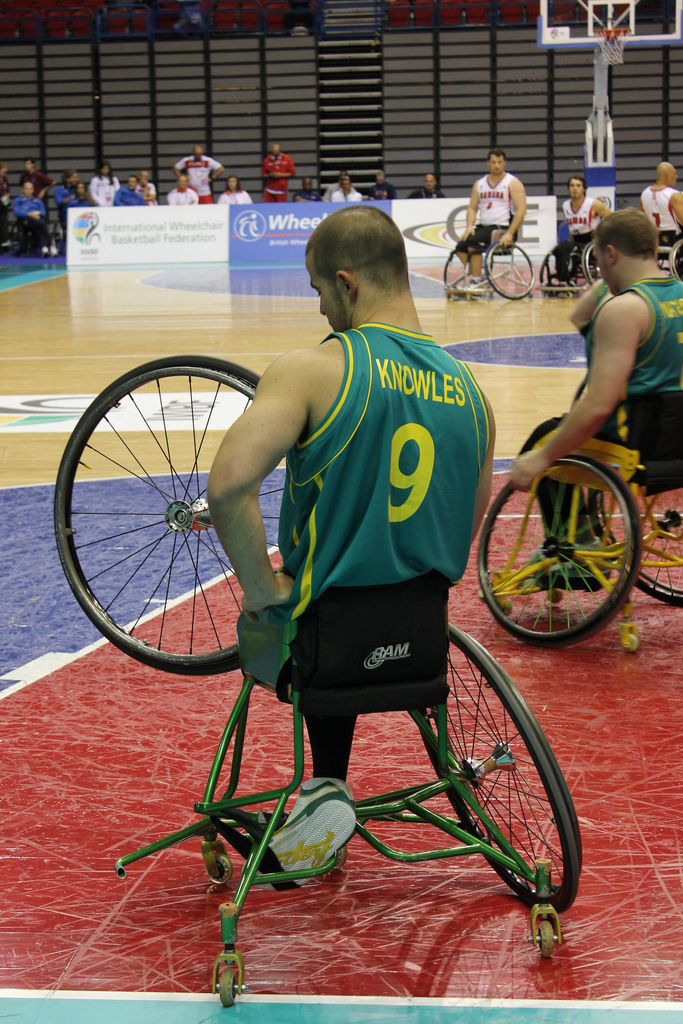 Picture: Australian number 9 Tristan Knowles swaps a wheel mid-match during the 2010 World Wheelchair Basketball Championship